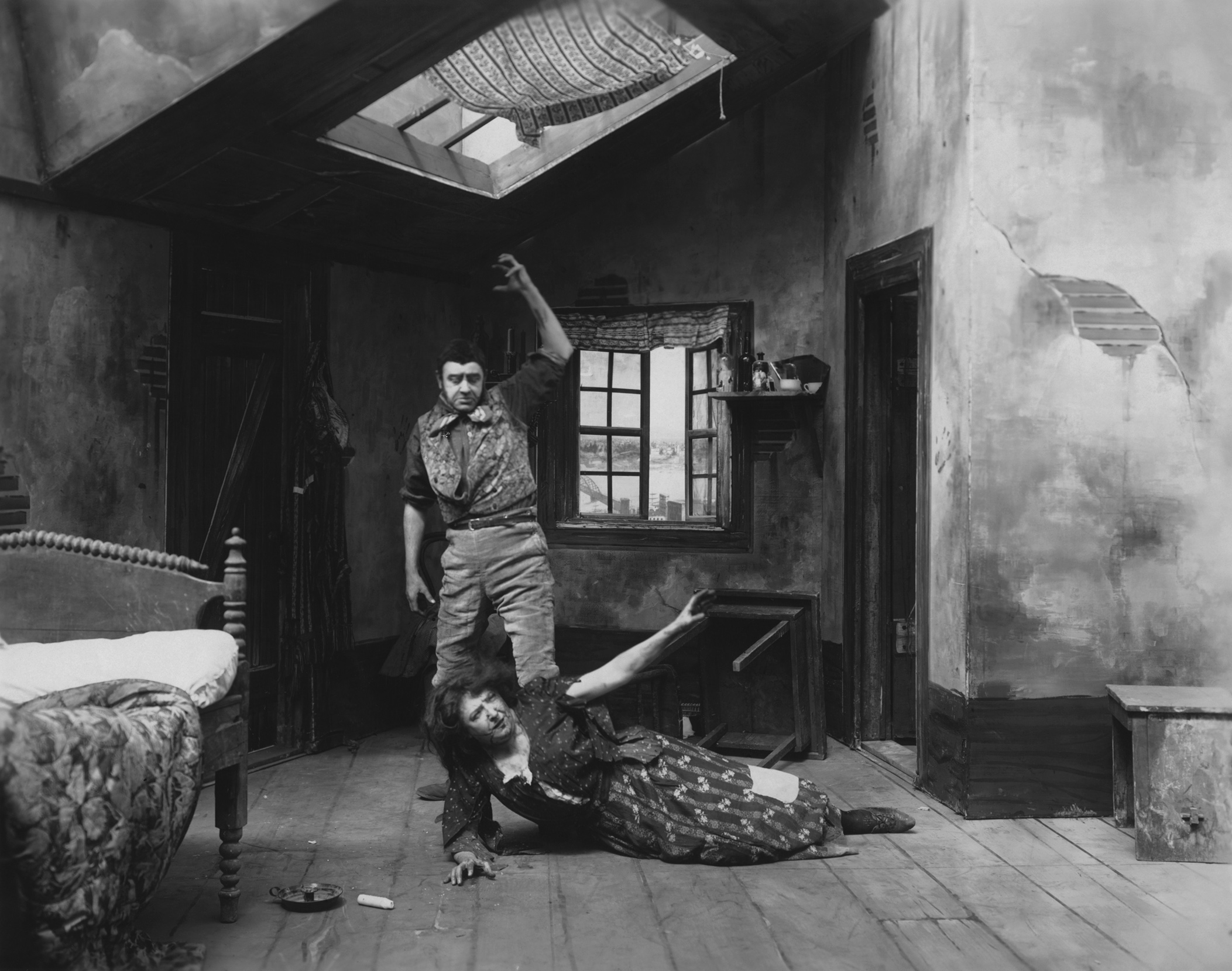 James A. Marcus and Aggie Herring in Oliver Twist - cropped screenshot